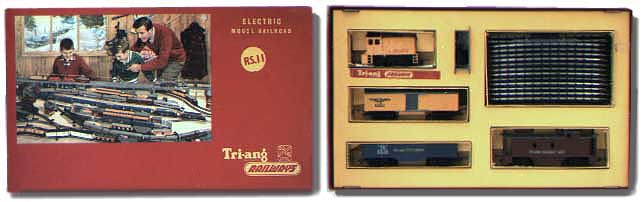 Tri-Ang model railroad set from 1961. Photo by J-E Nyström, User:Janke, released to